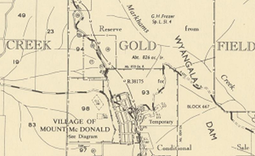 The Mt McDonald town plan at the end of the 19th Century. There is now minimal evidence of a settlement